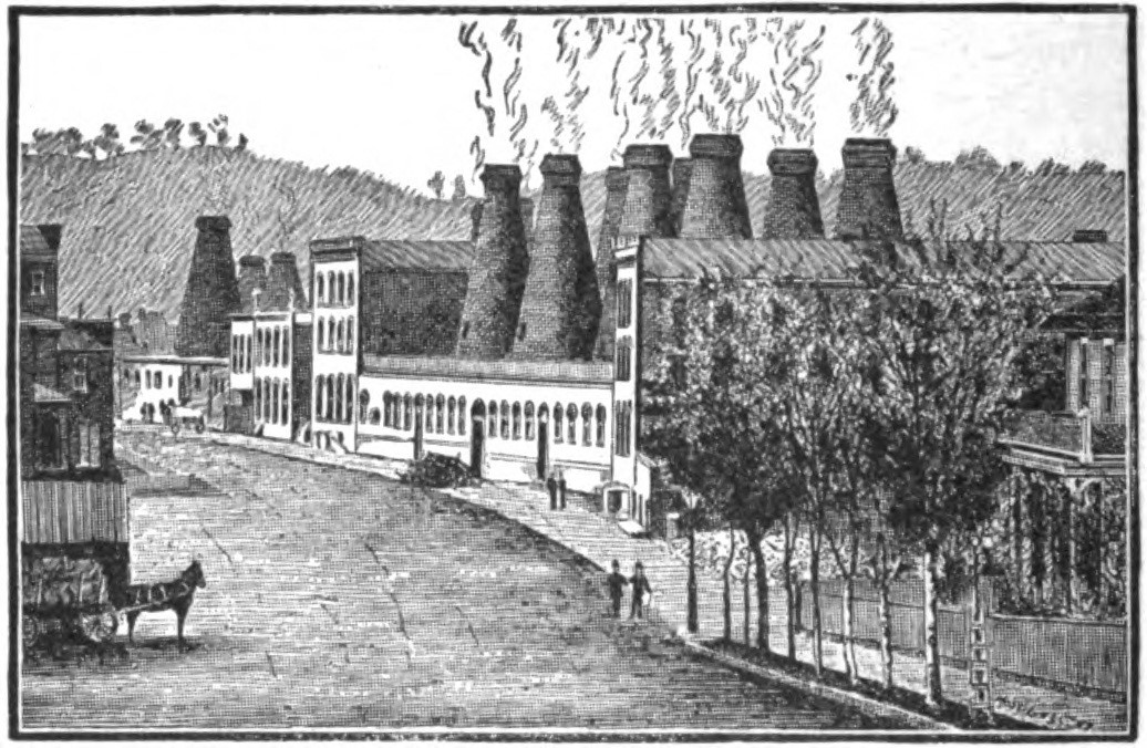 Knowles, Taylor & Knowles Pottery at East Liverpool, Ohio from an 1887 photograph.